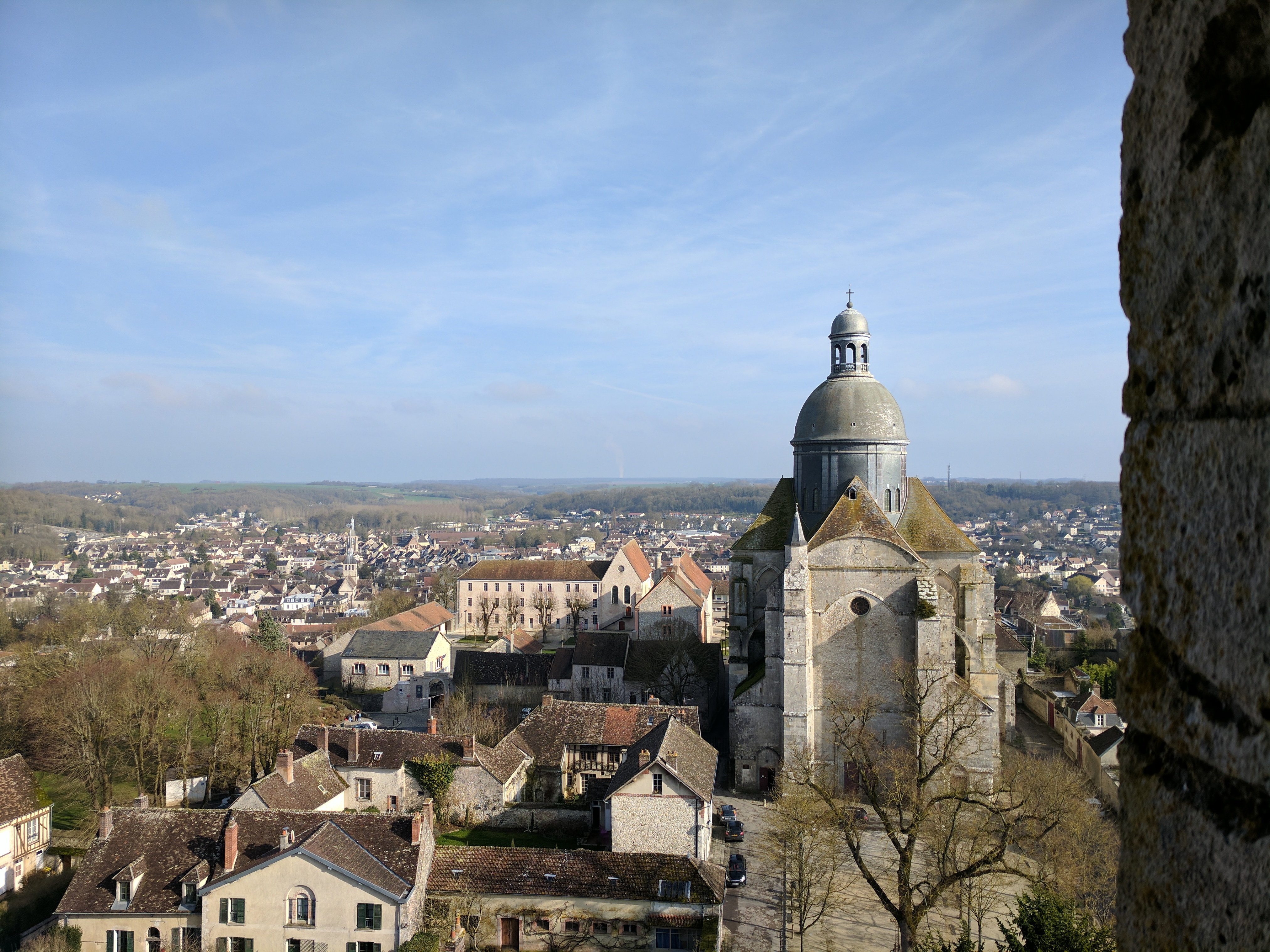 The church, as seen from the bell tower of the adjacent castle.